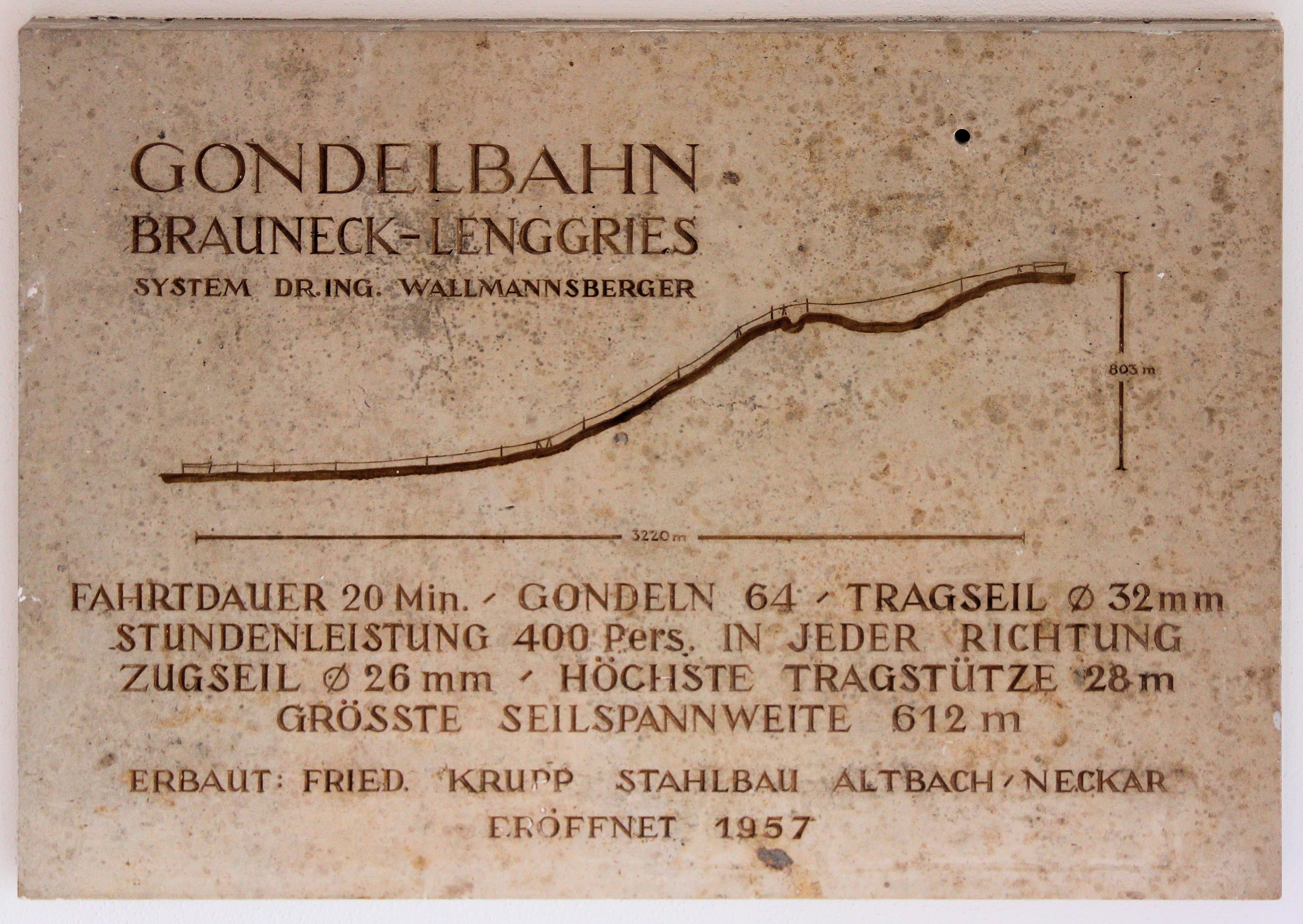 Memorial plaque, Brauneck Goldelbahn, Gilgenhöfe 9, Lenggries, Germany